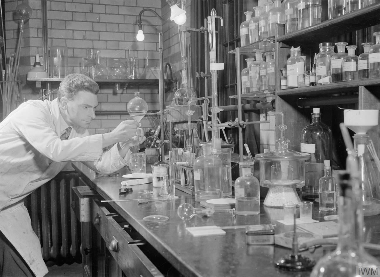 Penicillin Past, Present and Future- the Development and Production of Penicillin, England, 1944 Dr Wilson Baker hard at work in the Dyson-Perrins' laboratory, Oxford. Dr Baker has been working with Professor Sir Robert Robinson and others to try to create synthetic penicillin. He has just succeeded in breaking down penicillin into its separate elements and it is now a question of discovering the correct way to put these together to create a synthetic copy of the natural mould.